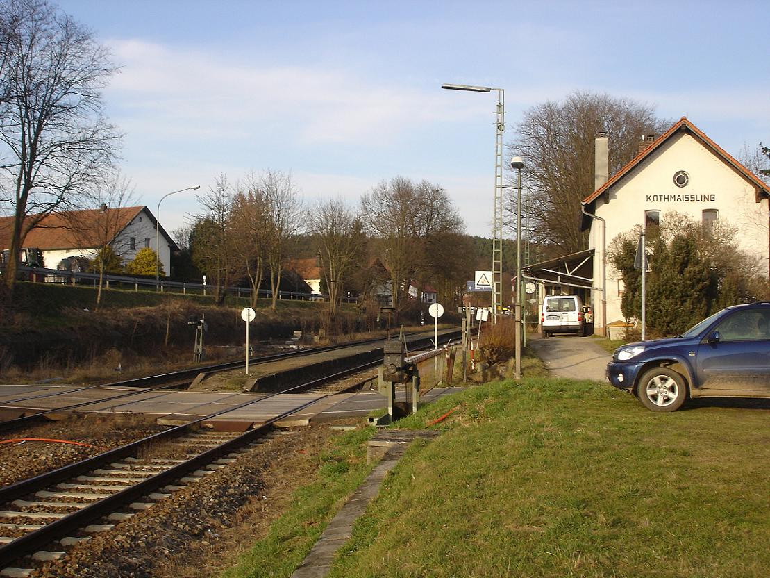 Der Bahnhof in Cham-Kothmaißling (Deutschland)/ The train station in Cham-Kothmaissling (Germany)